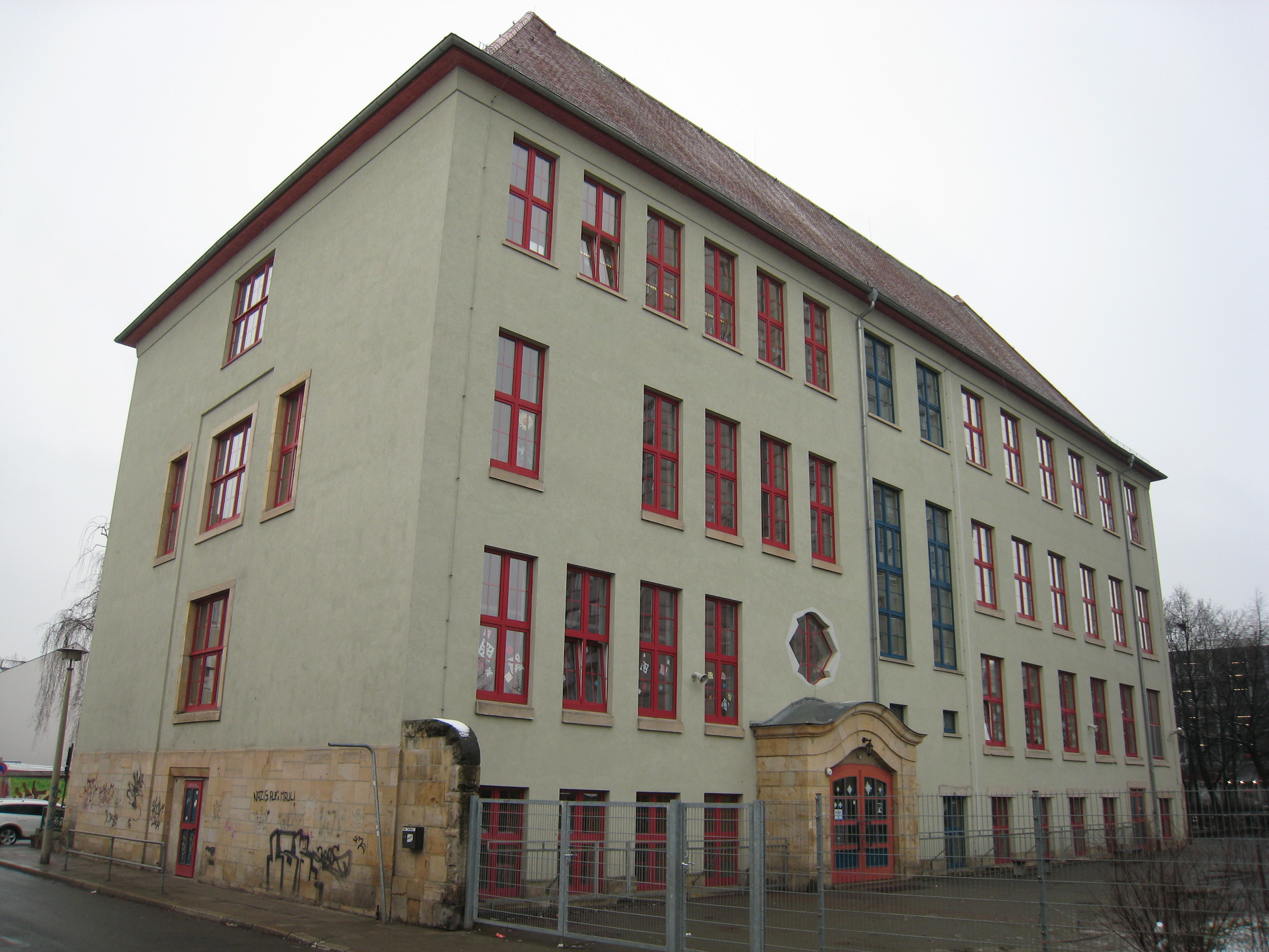 Elementary Humboldt school, Erfurt, Juri-Gagarin-Ring 126